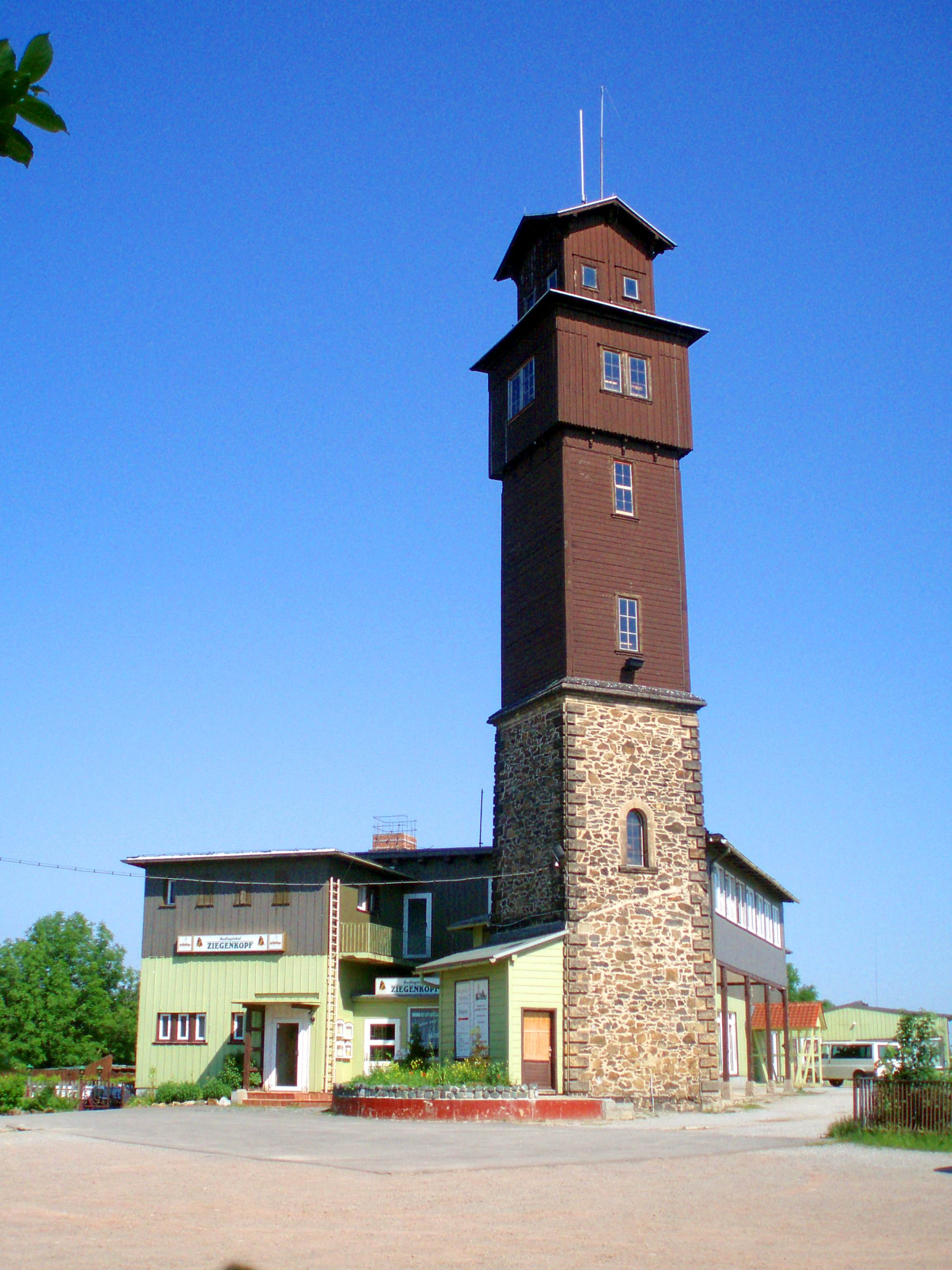 Hilltop restaurant and tower on the Ziegenkopf in the Harz mountains of Germany